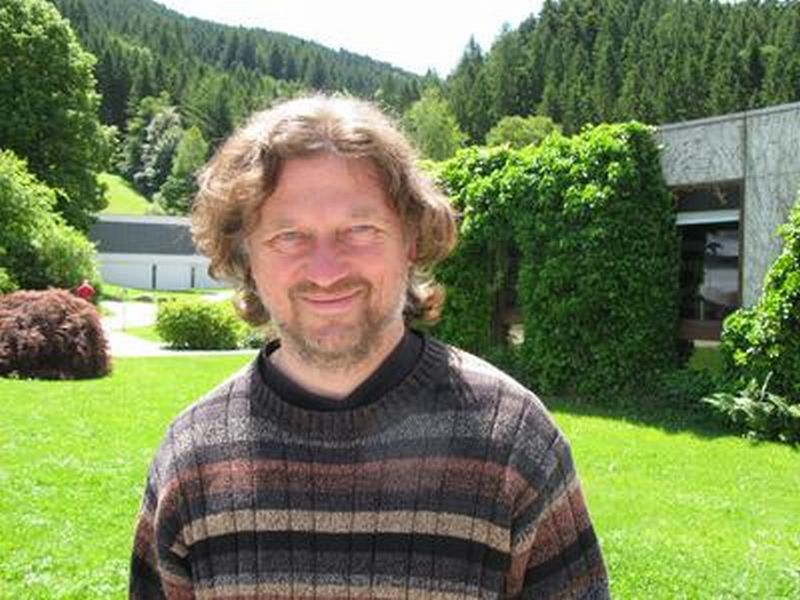 Stephan Stolz, Oberwolfach 2009